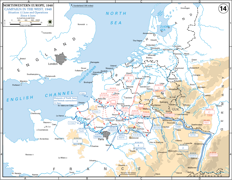 The German advance to the Seine River form 4 June to 12 June 1940